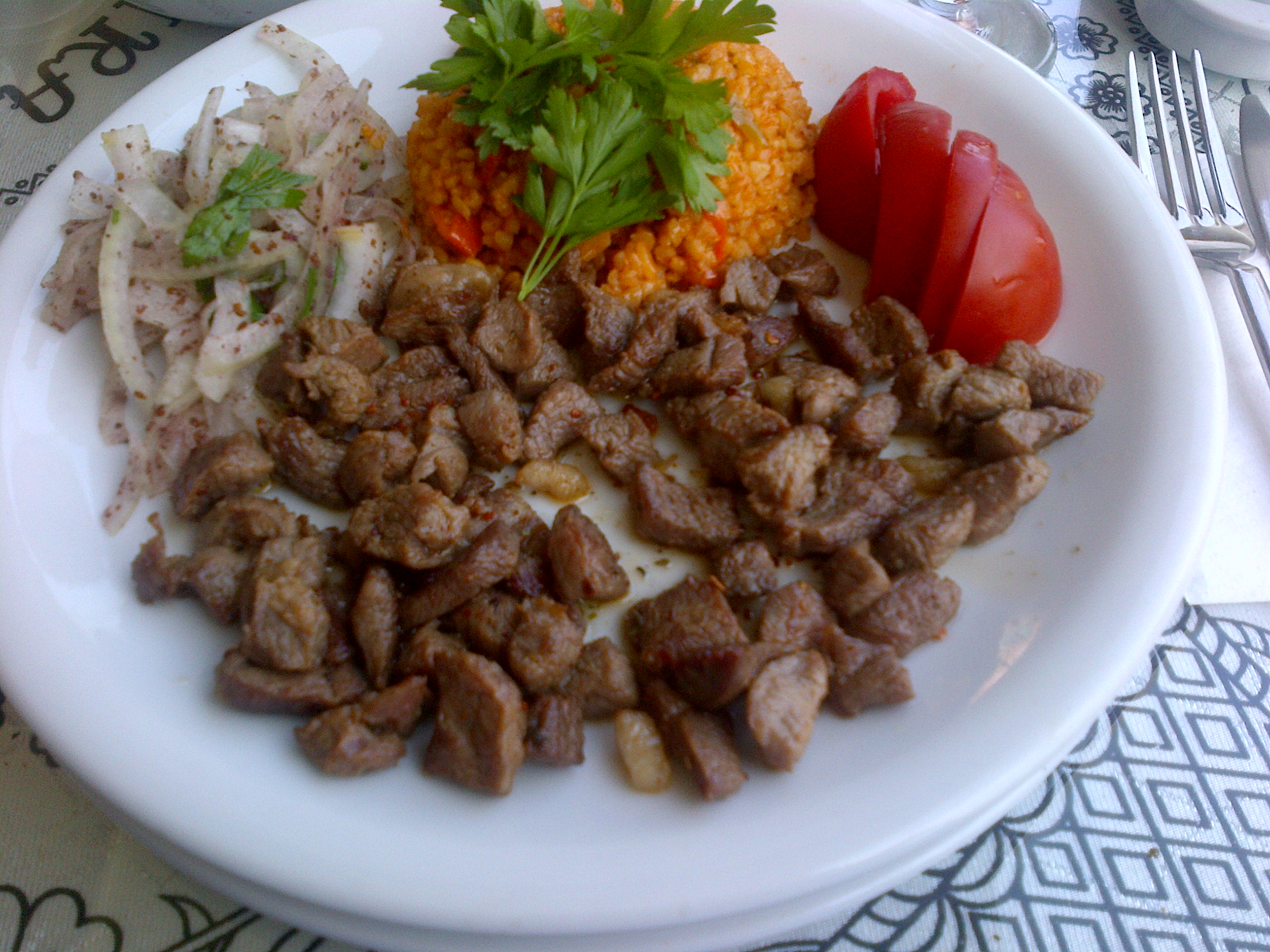 "Kuzu" (lamb) kavurma, from the Turkish cuisine, with "bulgur pilavı", onions with sumak and tomato slices.